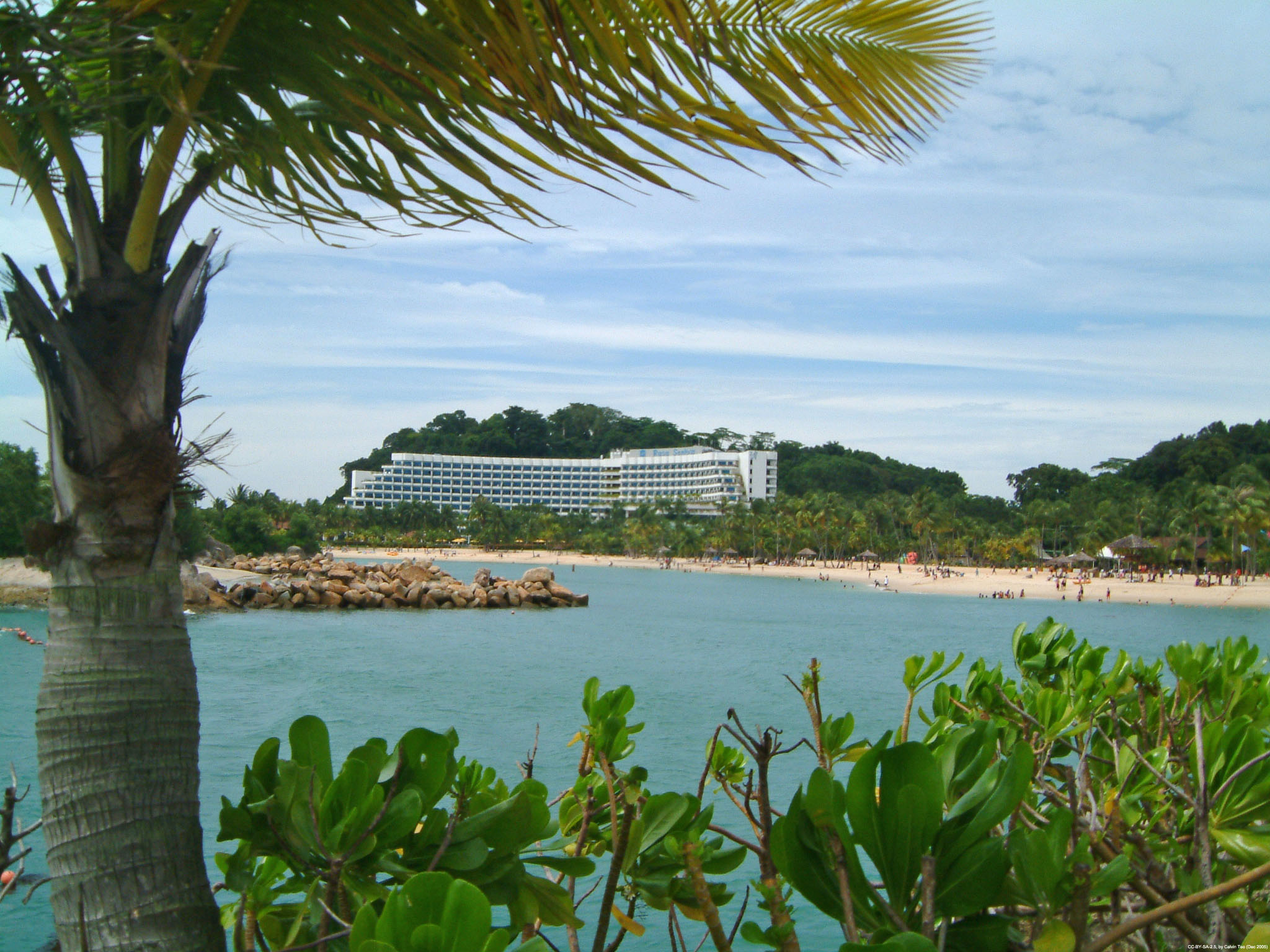 Siloso beach in Sentosa, showing a sheltered cove with a sandy beach used for recreation. The building in the background is the Shangri-La Rasa Sentosa Resort. Image Captured by Calvin Teo, in December 2005